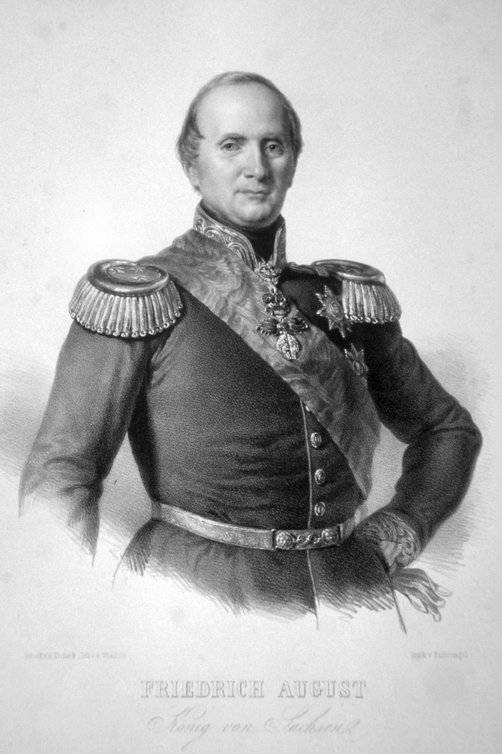 Friedrich August II., King of Saxony (1797-1854) Lithograph by G. Weinhold after a painting by A. Erhardt